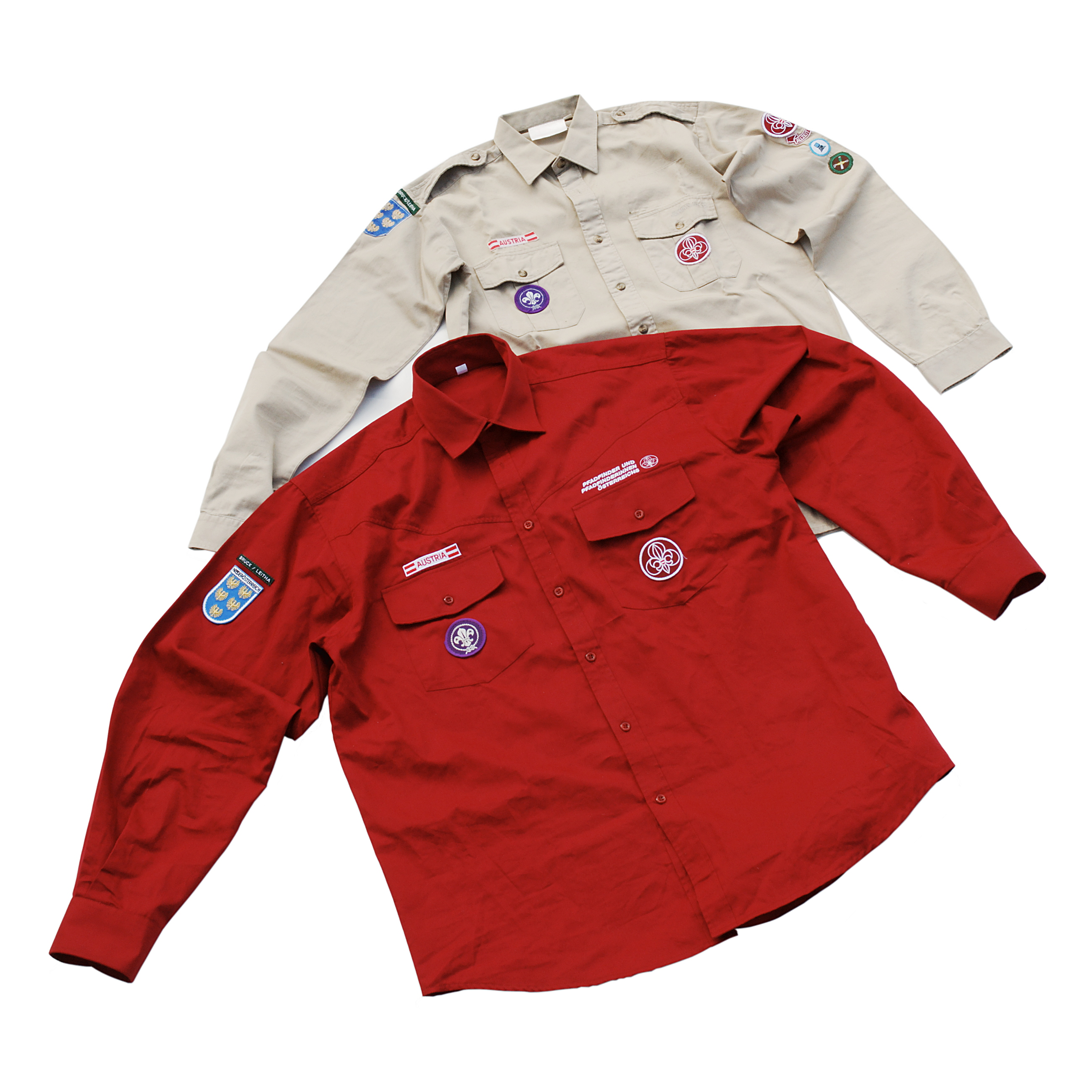 In the front, this picture shows the red scout uniform of the Pfadfinder und Pfadfinderinnen Österreichs (PPÖ, Austrian Boy Scouts and Girl Guides). The badge on the left pocket shows the insignia of the PPÖ, the one on the right pocket the insignia of WOSM (World Organization of the Scout Movement). At a girl guide uniform there is the insignia of WAGGGS (World Association of Girl Guides and Girl Scouts) instead. At the right sleeve you see the coat of arms of the province an the name of the group (in this case: Bruck/Leitha). In the back an old uniform (in use until 1995) is shown. The badges are the same. In addition, on the left sleeve there are the badges for First Class (the PPÖ-insignia again), the Second Class (showing the scout motto "Allzeit Bereit", meaning "always prepared") and two merit badges.